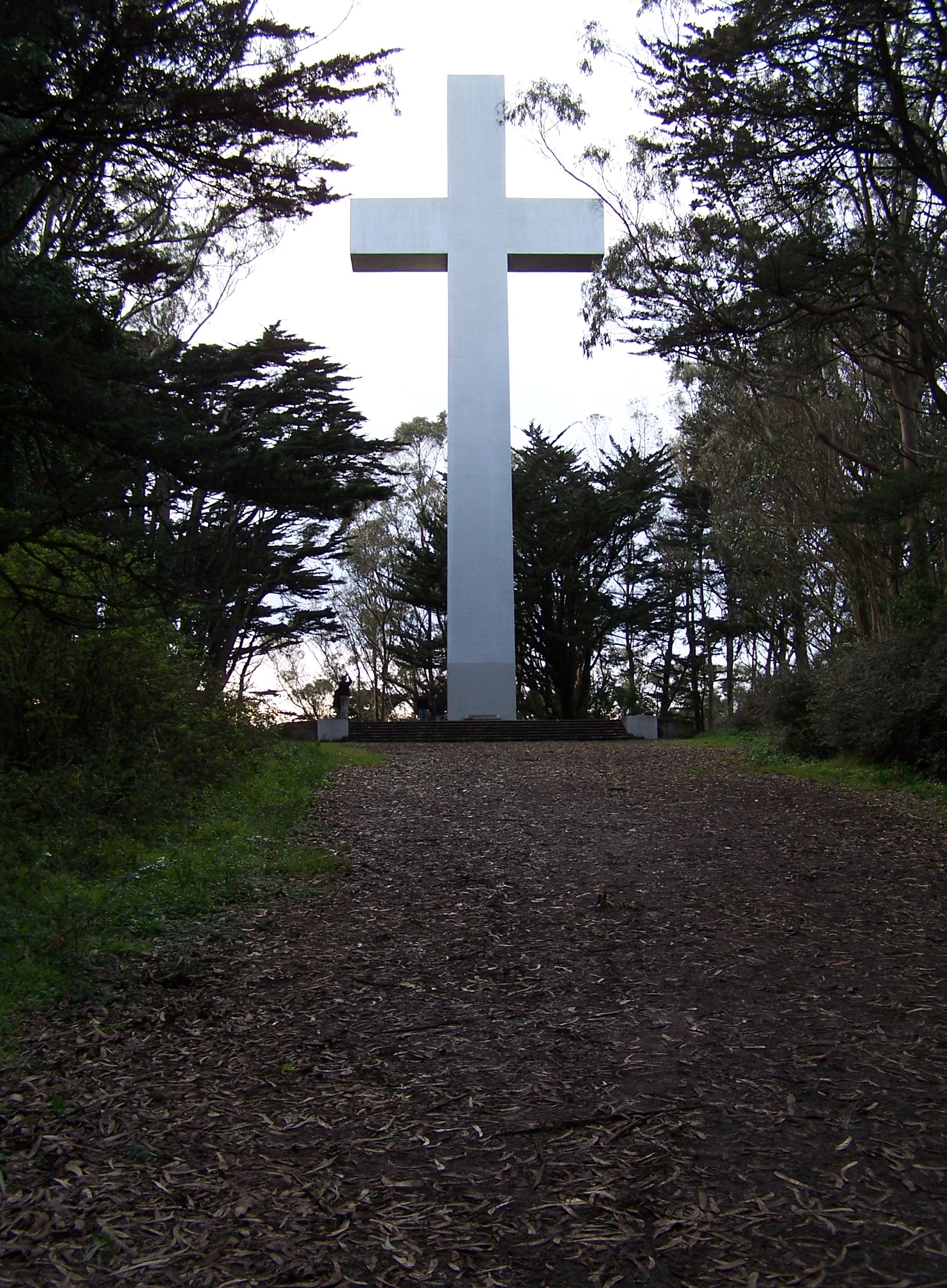 Cross atop Mount Davidson, San Francisco